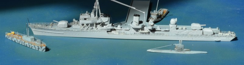 Construction started, but then cancelled. The Resin kit is from Bird Models. Some more pics of the same model are on